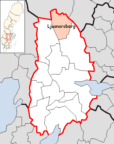 Ljusnarsberg Municipality in Örebro County Designd by me, based on Image:Örebro County.png